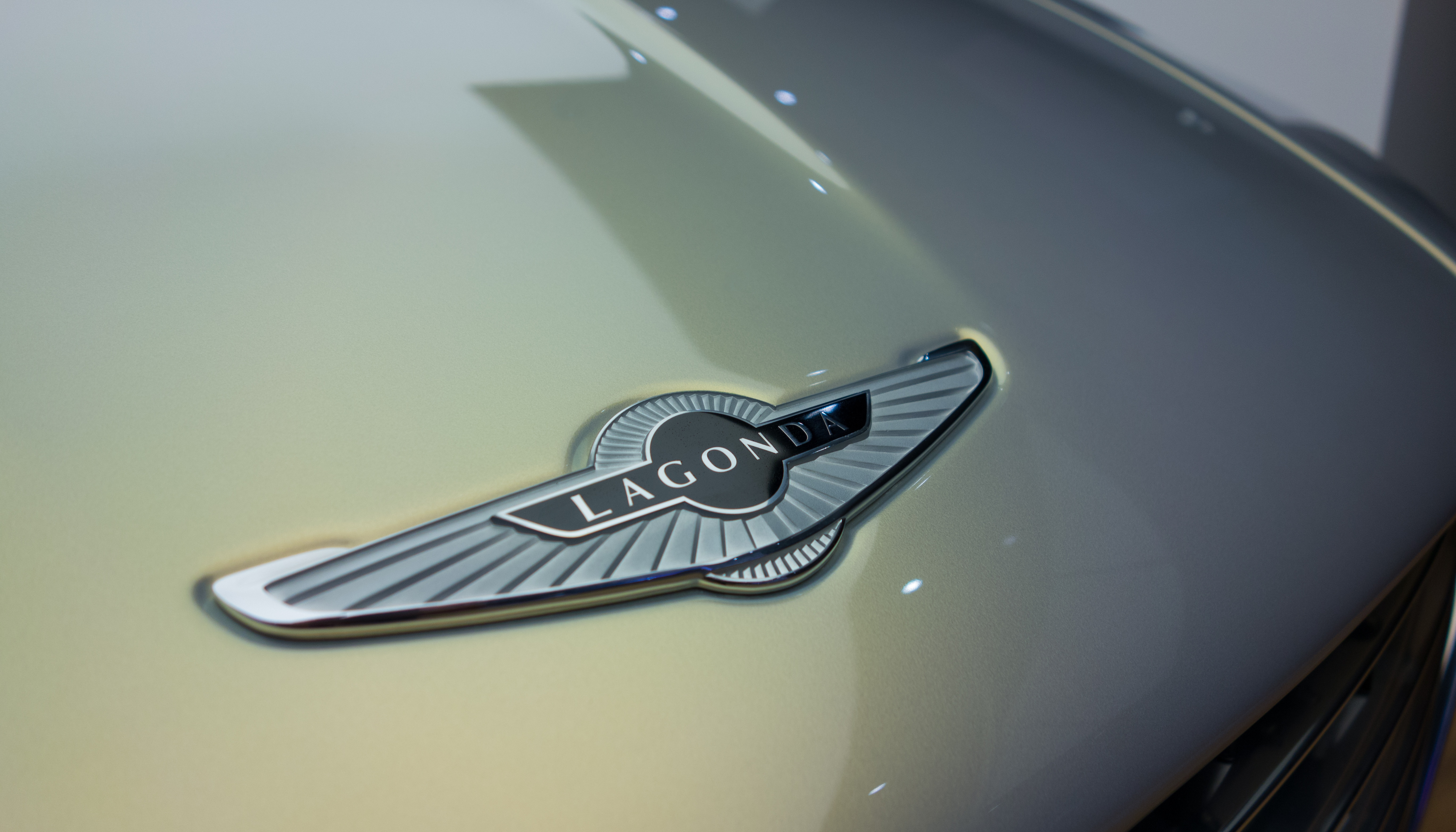 Aston Martin Lagonda Taraf 2016 600cv 200ex